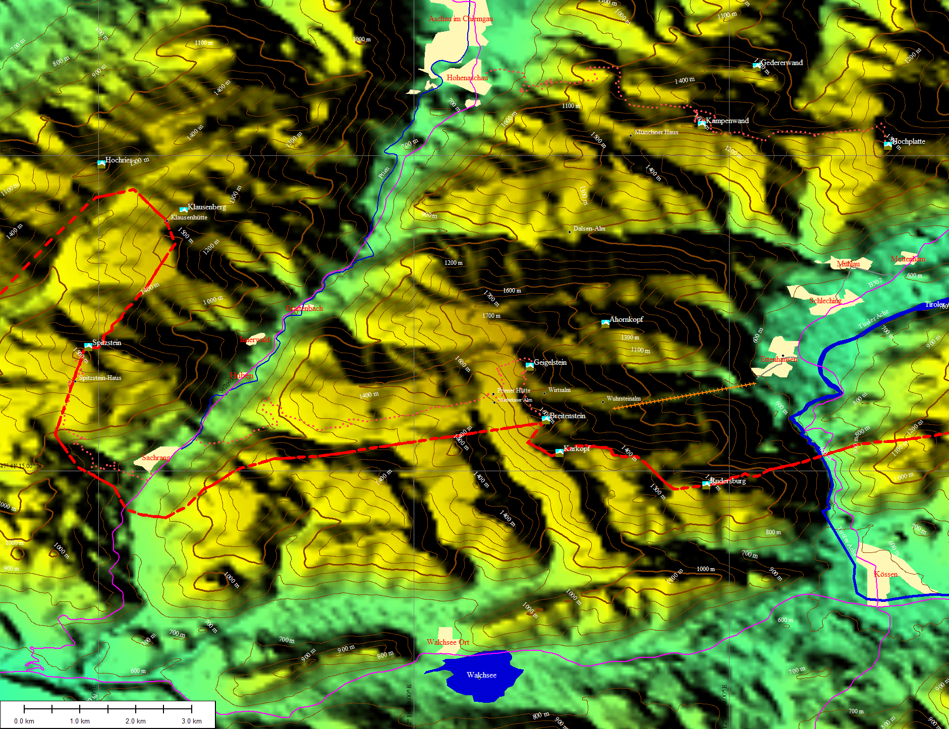 Map of mount Geigelstein in Germany.